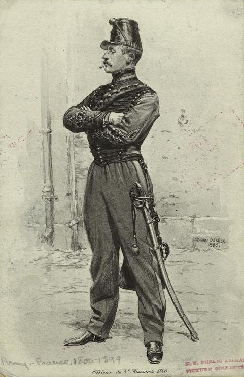 Officer of the 4th Hussars (1840). This illustration appeared in L'Armee Française by Jules Richard, illustrated by Édouard Detaille, first published in 1885.